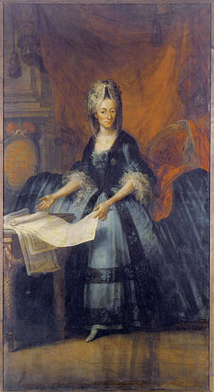 Portrait of Maria Carolina von Königsegg-Rothenfels, princess-abbess of Buchau